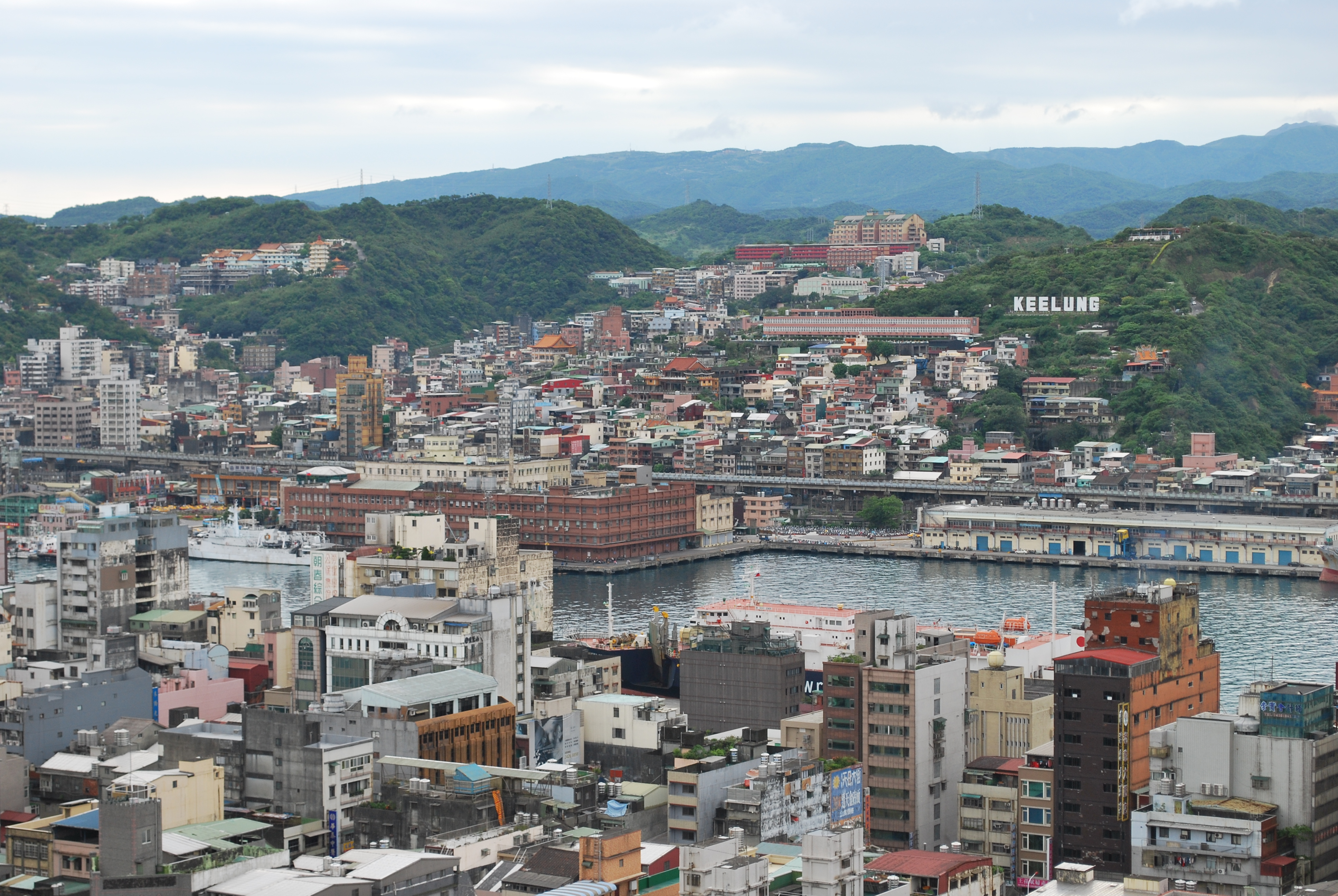 Port of Keelung